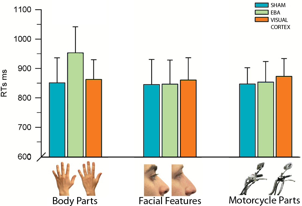 This is a graph for a psychology experiment.